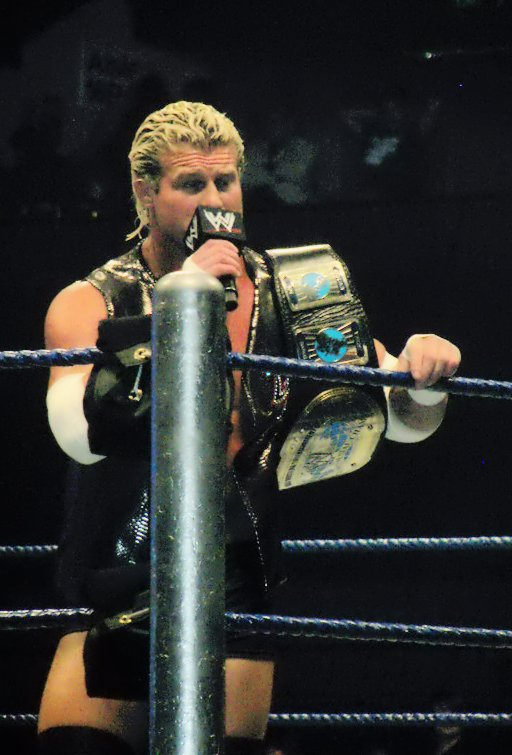 Dolph Ziggler @ Adelaide, South Australia 'Smackdown' house show on the 3rd of August '10